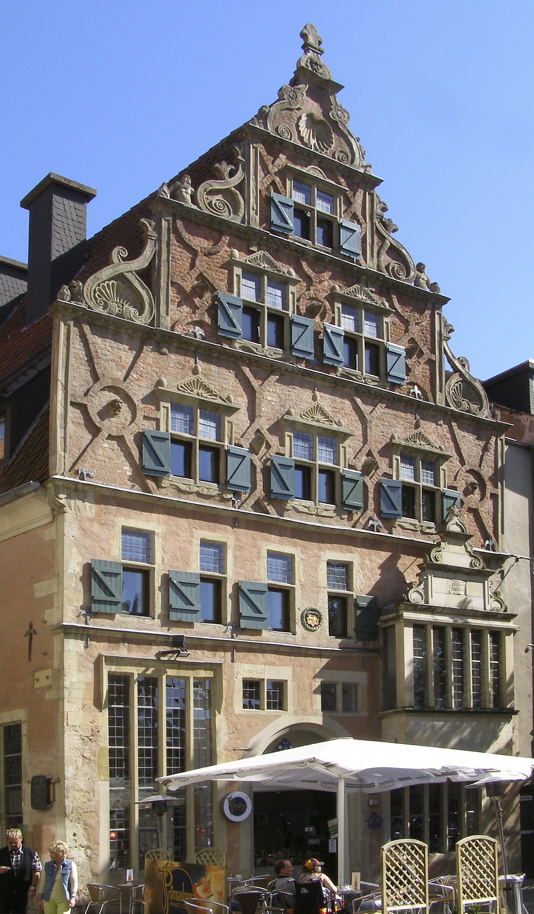 House Wulfert in town of Herford, District of Herford, North Rhine-Westphalia, Germany.